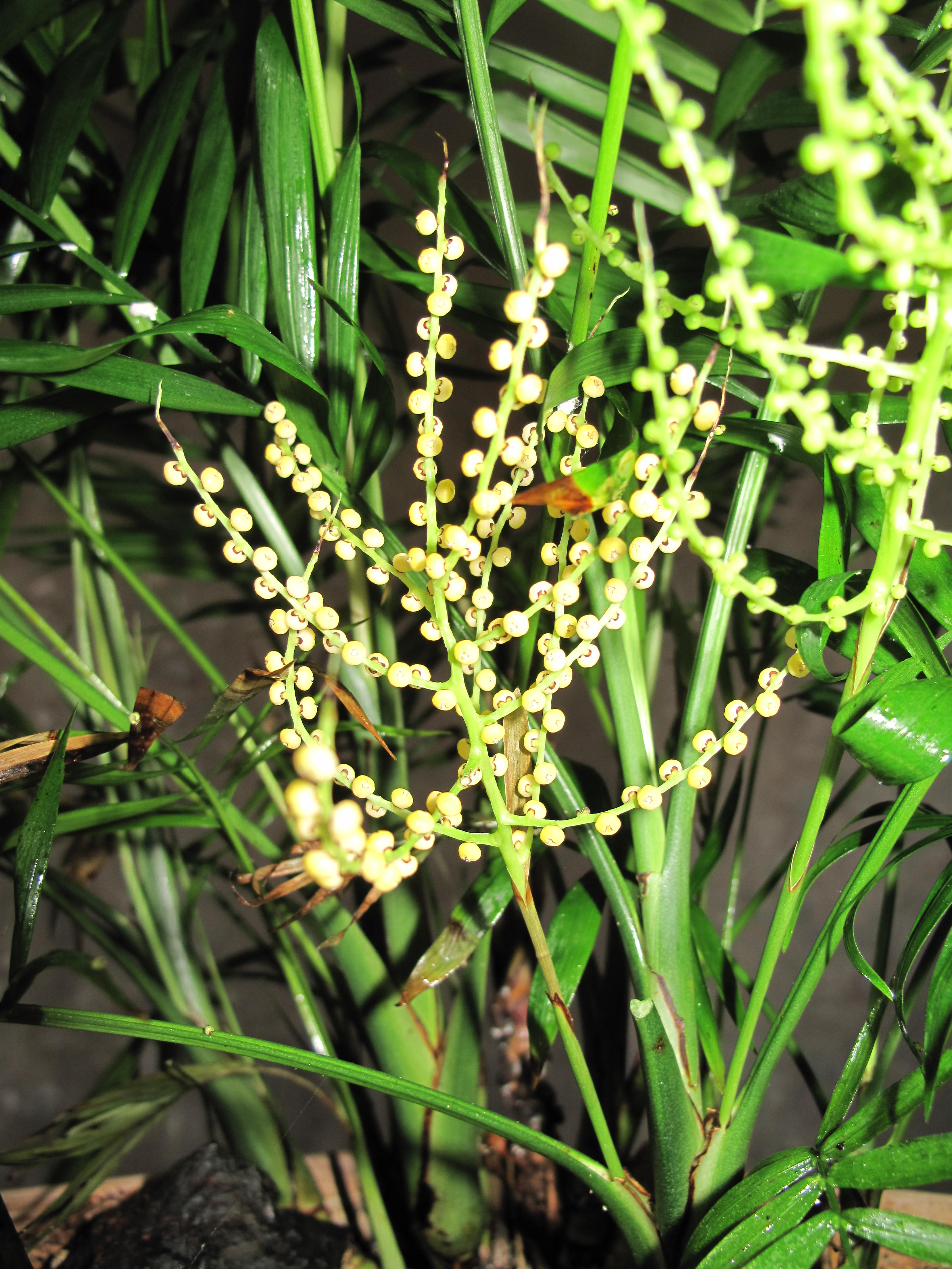 Close-up of fruits of a Neanthe palm-tree (Chamaedorea elegans).